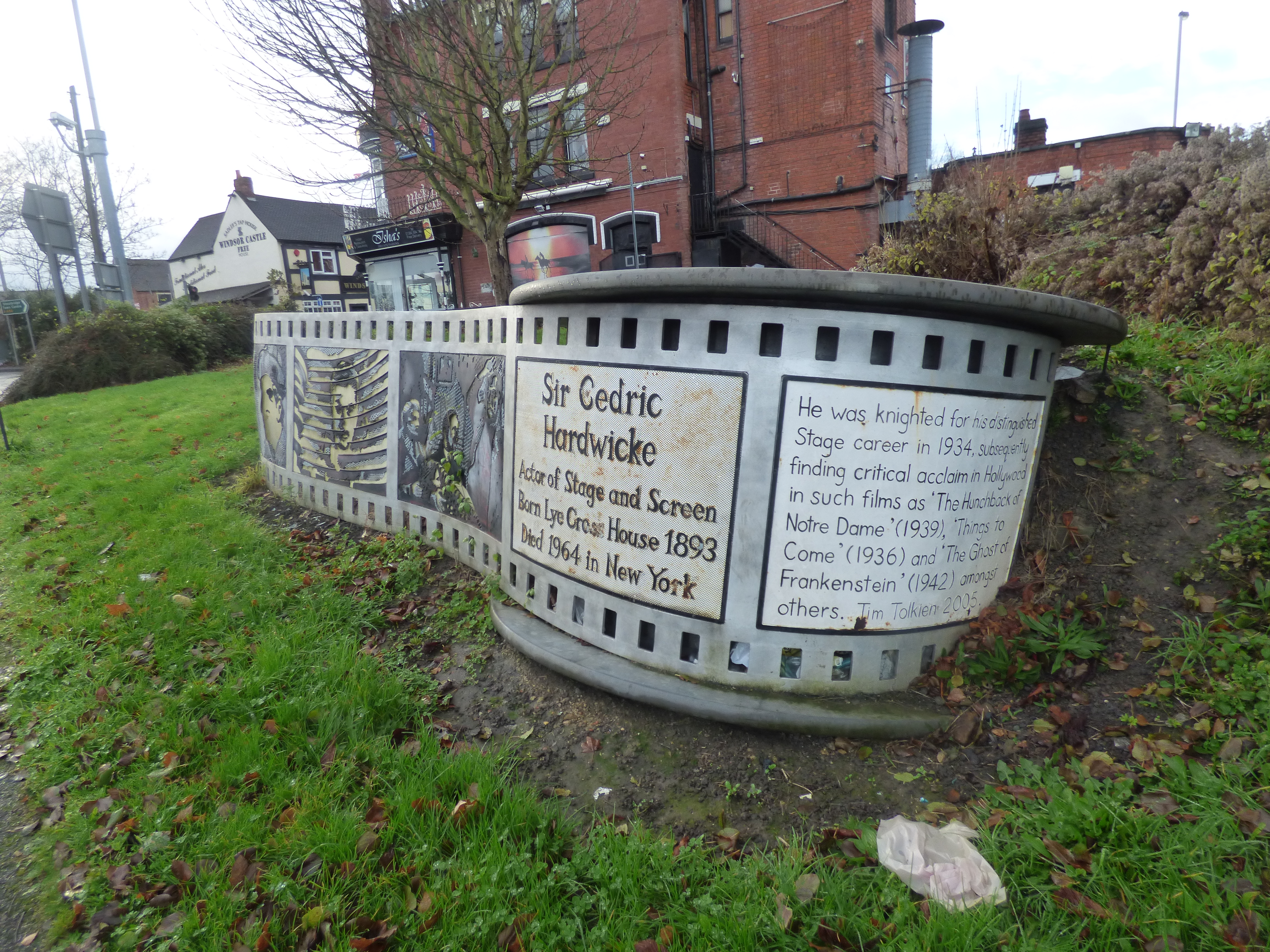 On the Dudley Road in Lye is a sculpture dated 2005 by Tim Tolkien in memory of the actor born in Lye, Sir Cedric Hardwicke (1893 to 1964). He died in New York. Seen near The Centre Buildings and Isha's Indian Restaurant. Tim Tolkien sculpted a memorial to the actor Sir Cedric Hardwicke, at the latter's birthplace of Lye, West Midlands, for Dudley Metropolitan Borough Council. The memorial takes the form of a giant filmstrip, the illuminated cut metal panels illustrating scenes from some of Sir Cedric's best-known roles, which include The Hunchback of Notre Dame, The Shape of Things to Come, and The Ghost of Frankenstein. It was unveiled in November 2005.